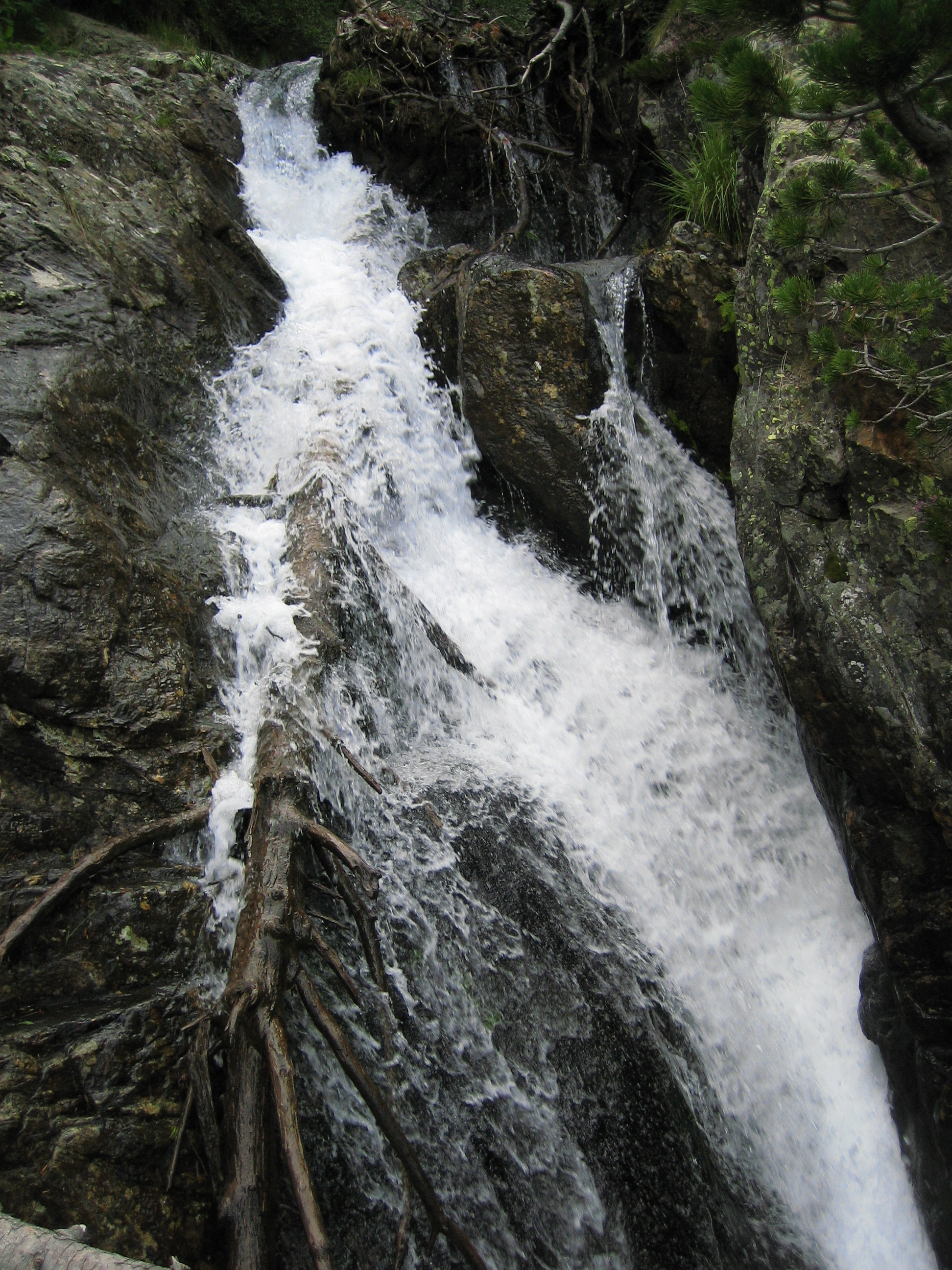 Riu de Coma Pedrosa river, Arinsal, La Massana, Andorra